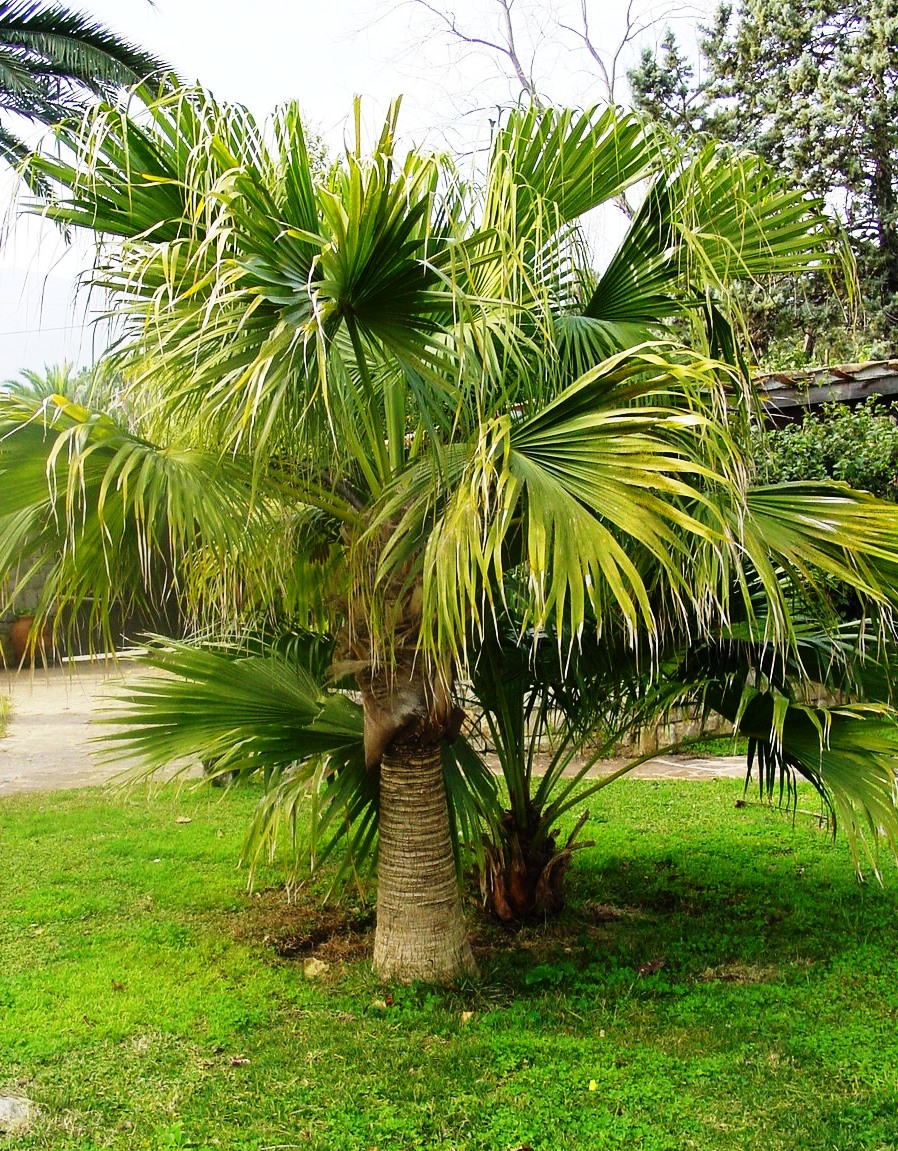 Contents 1 Oggetto 2 Summary 3 Licensing 3.1 Original upload log Oggetto Livistona chinensis (private collection, Palermo) Uploaded by Esculapio